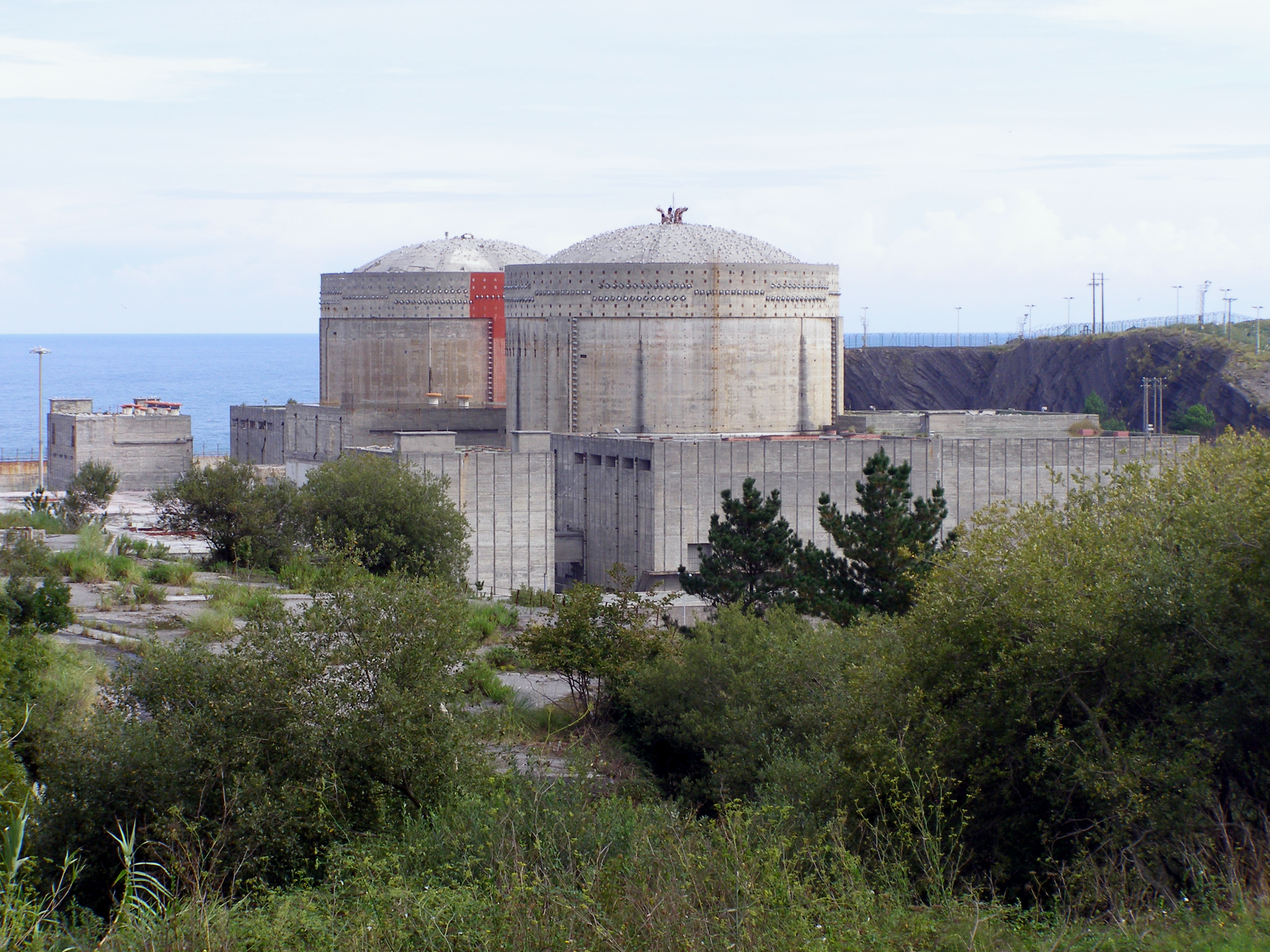 Southwest view of the nuclear power plant of Lemóniz. Vista Suroeste de la central nuclear de Lemóniz.